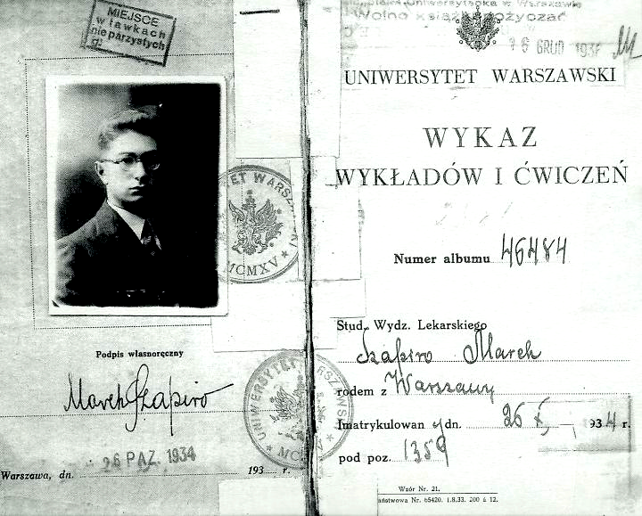 Index of Marek Szapiro, a Polish Jew student with Ghetto benche seal 1934